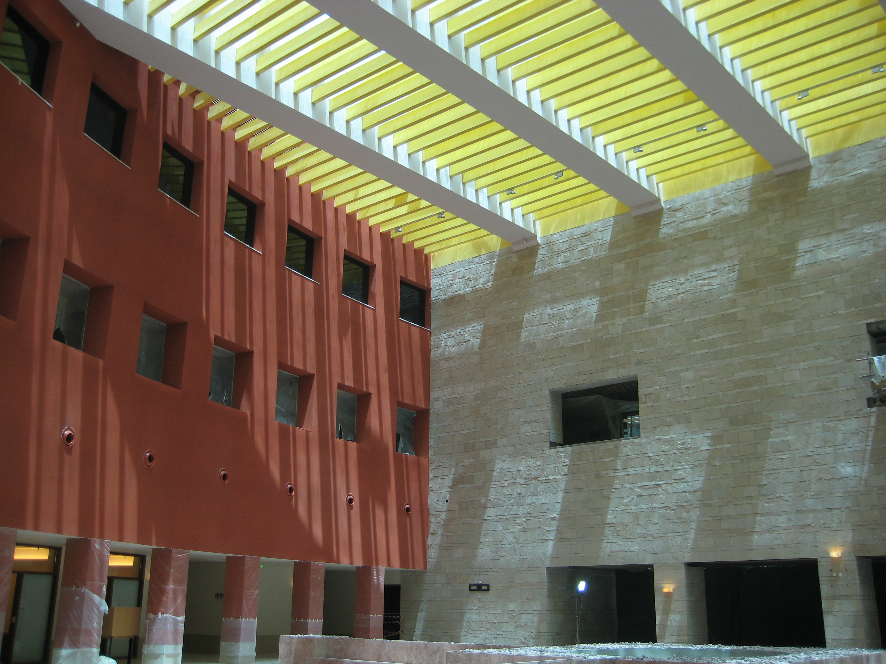 The atrium of Carnegie Mellon University in Qatar's new building, Education City, Doha